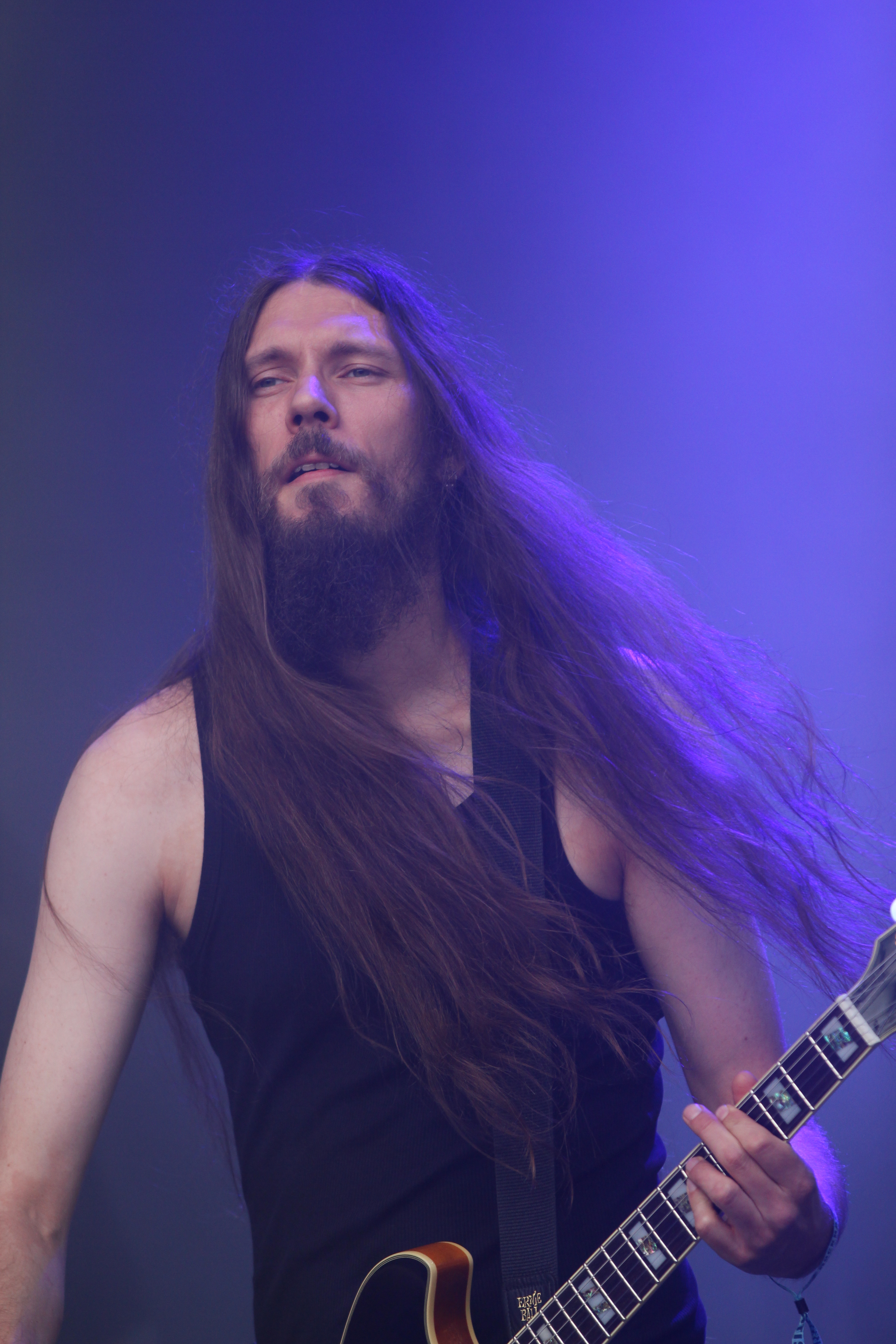 The Swedish gothic metal band Tiamat at the Rockharz Open Air 2014 in Ballenstedt/Germany